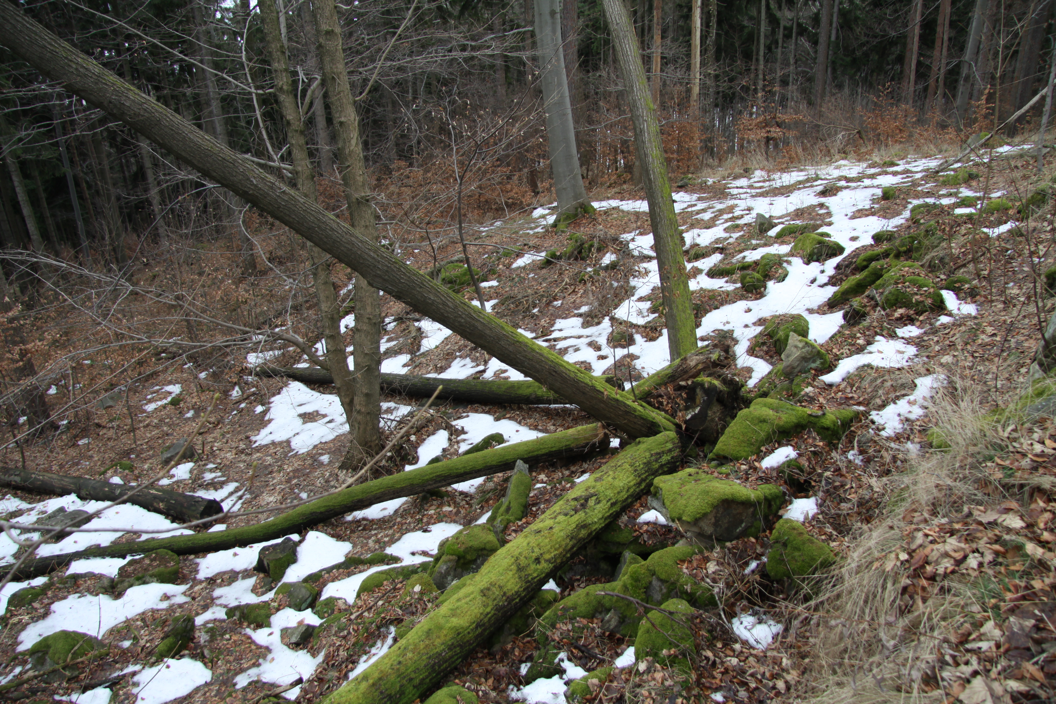 Natural reservation Skočický hrad near Skočice, Strakonice District, Czech Republic - Google Maps - Google Earth